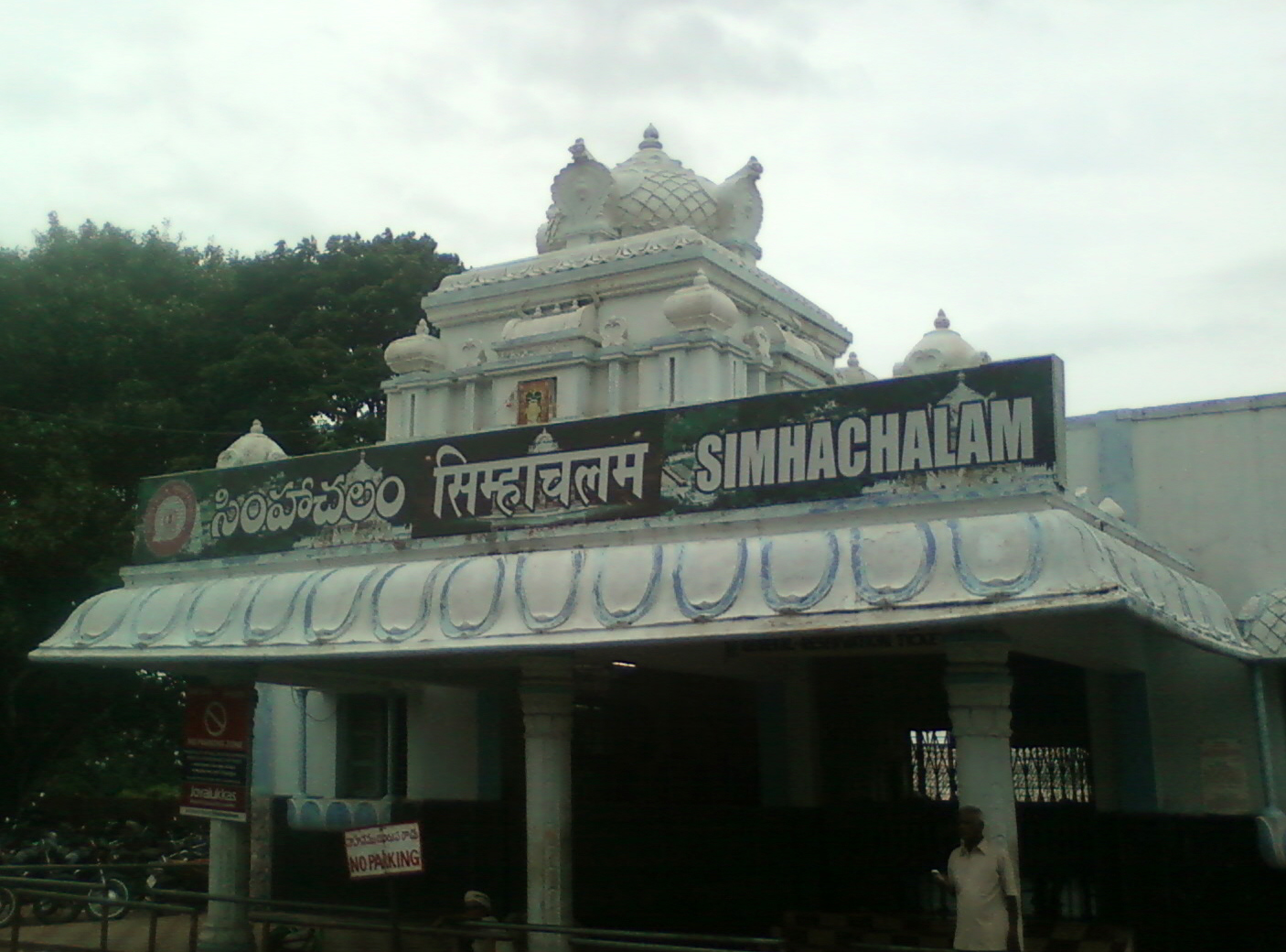 Entrance view of Simhachalam train station in Visakhapatnam